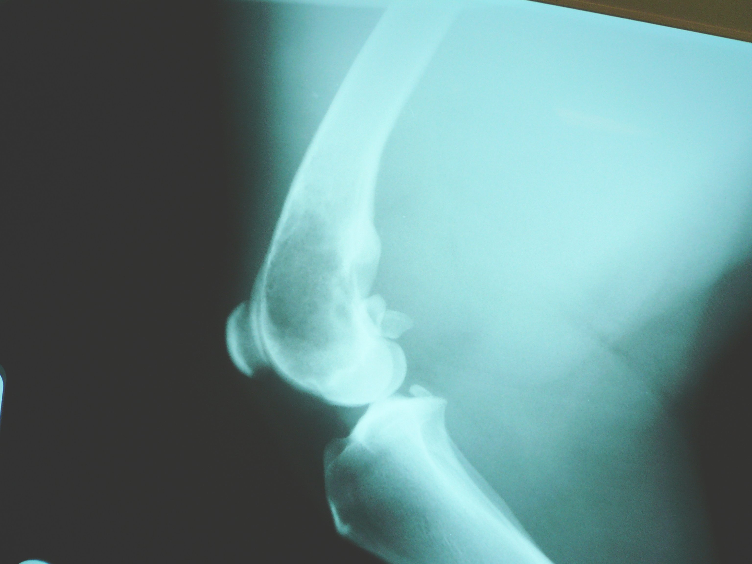 Photo of a lateral x-ray of the distal femur of a dog with osteosarcoma. The large dark portion of the femur is destruction of the bone by the tumor.